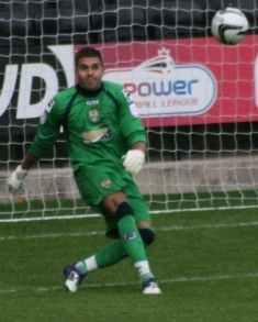 Białkowski in action V AEK Athens